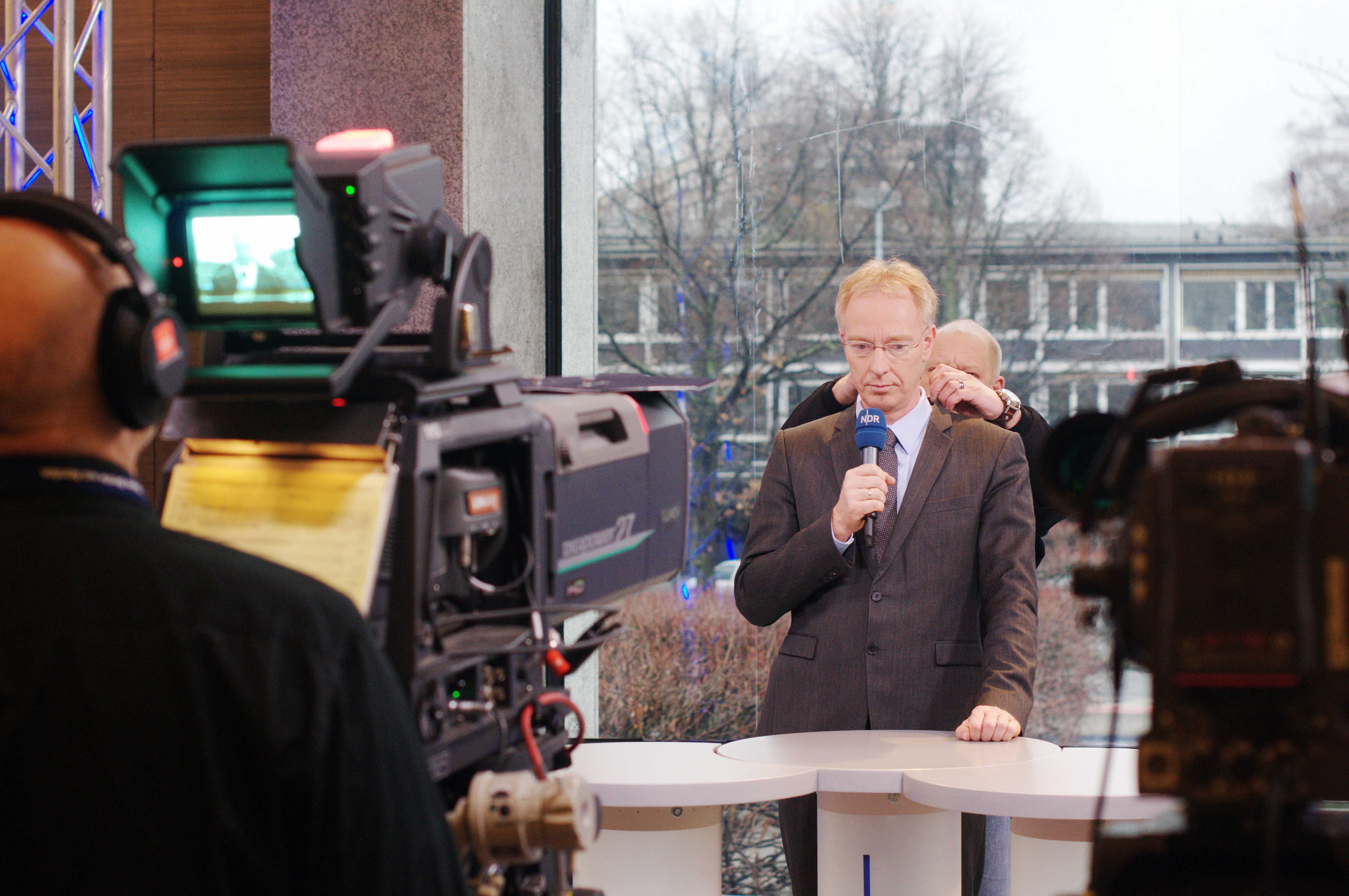 Wikipedia im Landtag – Niedersachsen 19. Februar 2013 in HannoverDieses Bild entstand während der Konstituierende Sitzung des Landtages Niedersachsen 2013 im Landtag Hannover. This work is free and may be used by anyone for any purpose. If you wish to use this content, you do not need to request permission as long as you follow any licensing requirements mentioned on this page.